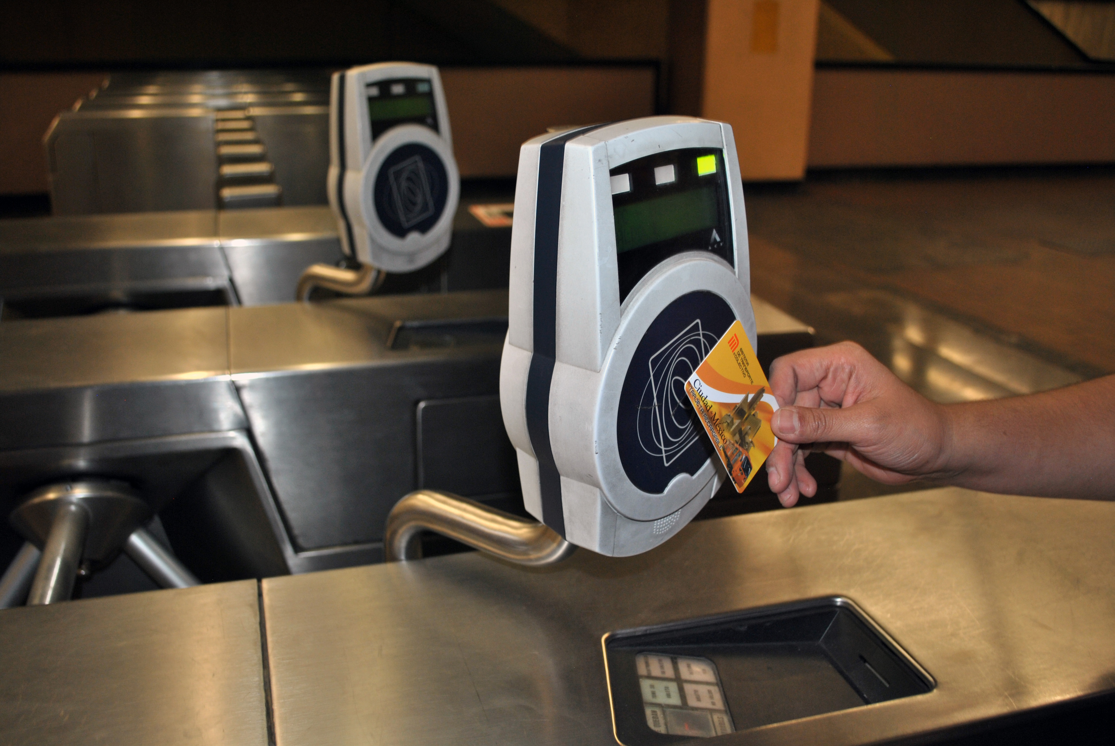 RFID smartcard used for paying Mexico City Metro